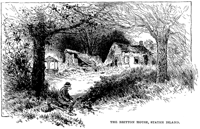 Drawing from Frank Leslie's American Magazine